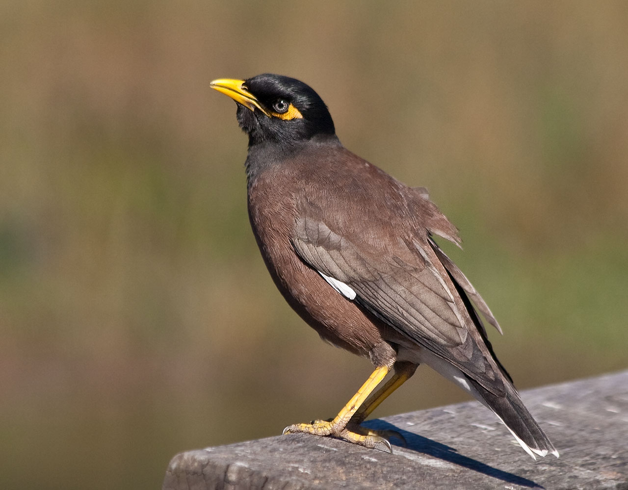 A Common Myna in Sydney Park, Alexandria, Sydney, Australia.